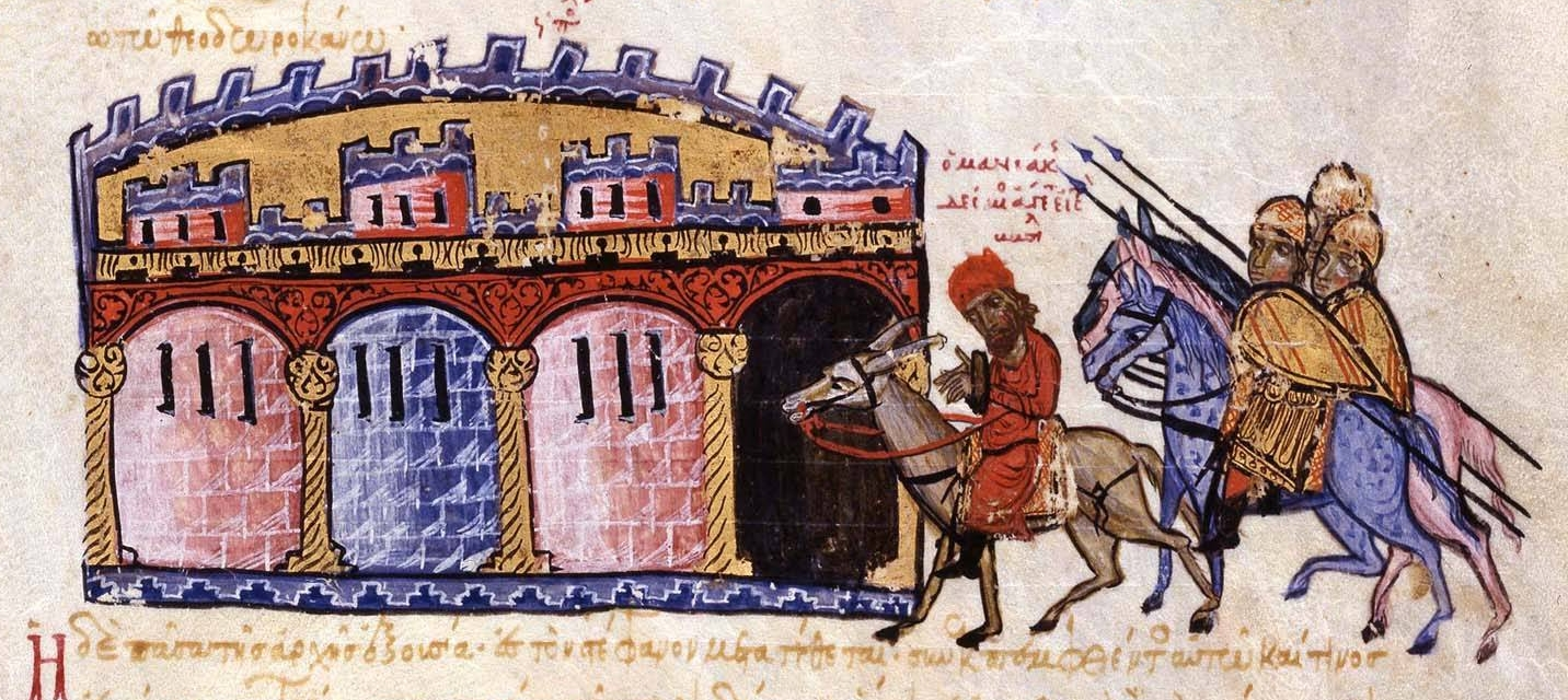 The general Georgios Maniakes is brought captive to Constantinople, miniature from the Madrid Skylitzes, Fol. 213v bottom